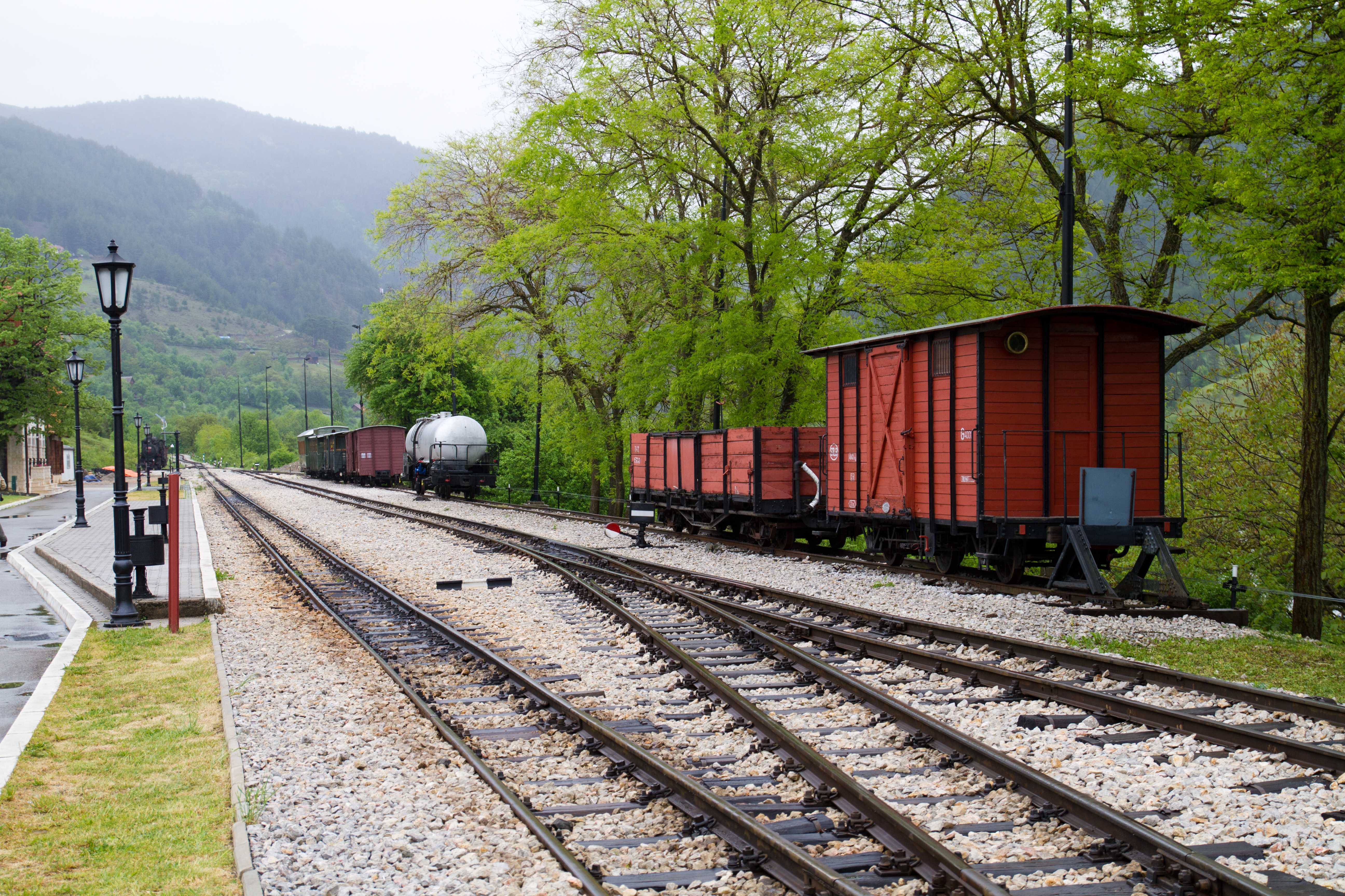 Mokra Gora/ Мокра Гора